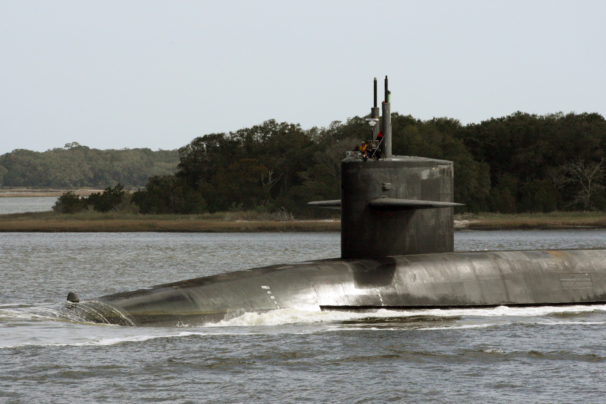 The Ohio-class ballistic-missile submarine USS Wyoming (SSBN 742) (Blue) transits the Intracoastal Waterway.